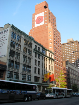 School of Visual Arts, Main Building, 209 East 23rd Street, New York, NY 10010